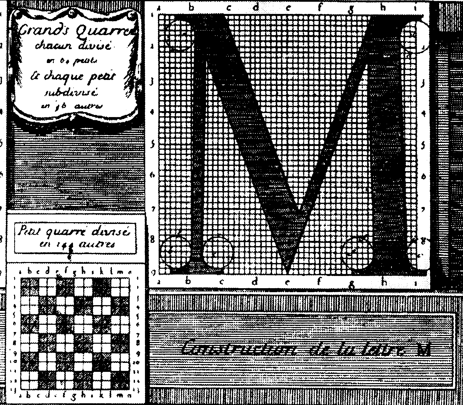 typeface graphic, Pierre Simon Fournier